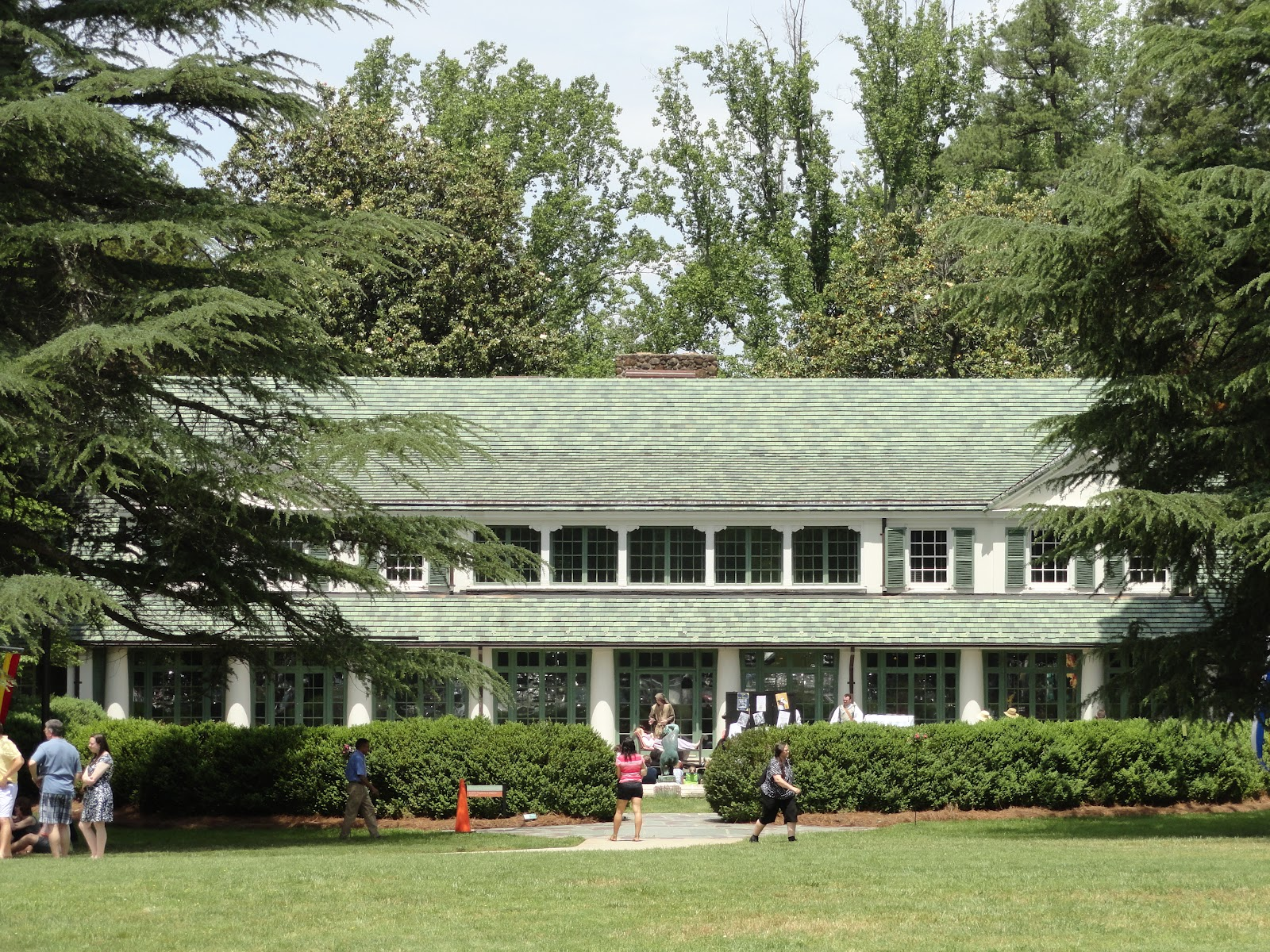 Reynolda House Museum of American Art, at Winston-Salem, North Carolina, United States. View from the front lawn.